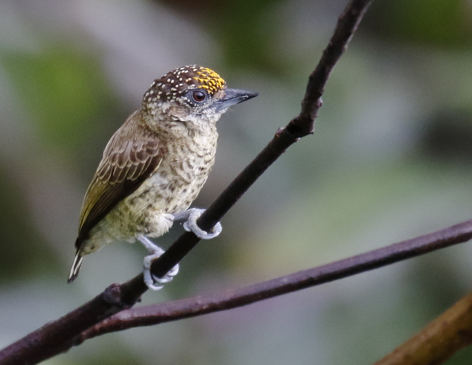 Bar-breasted Piculet (male), Careiro da Várzea Amazonas, Brazil